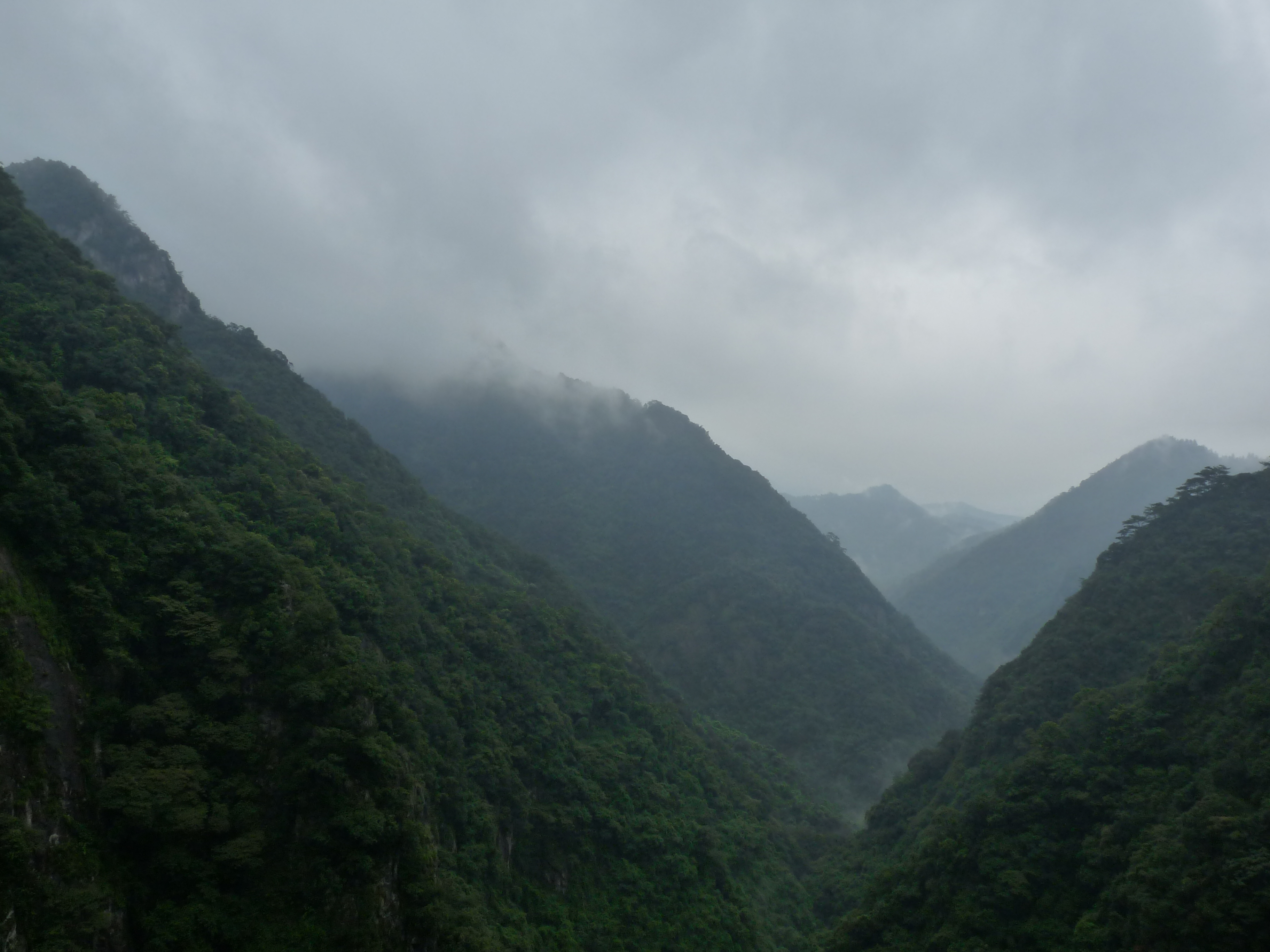 Qi Shan Mountain on the southern bank of Min River in Minhou County, Fuzhou, Fujian Province of China